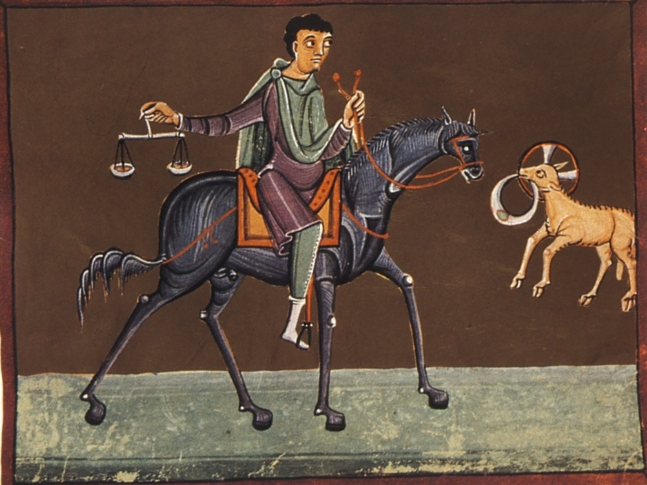 The third horseman